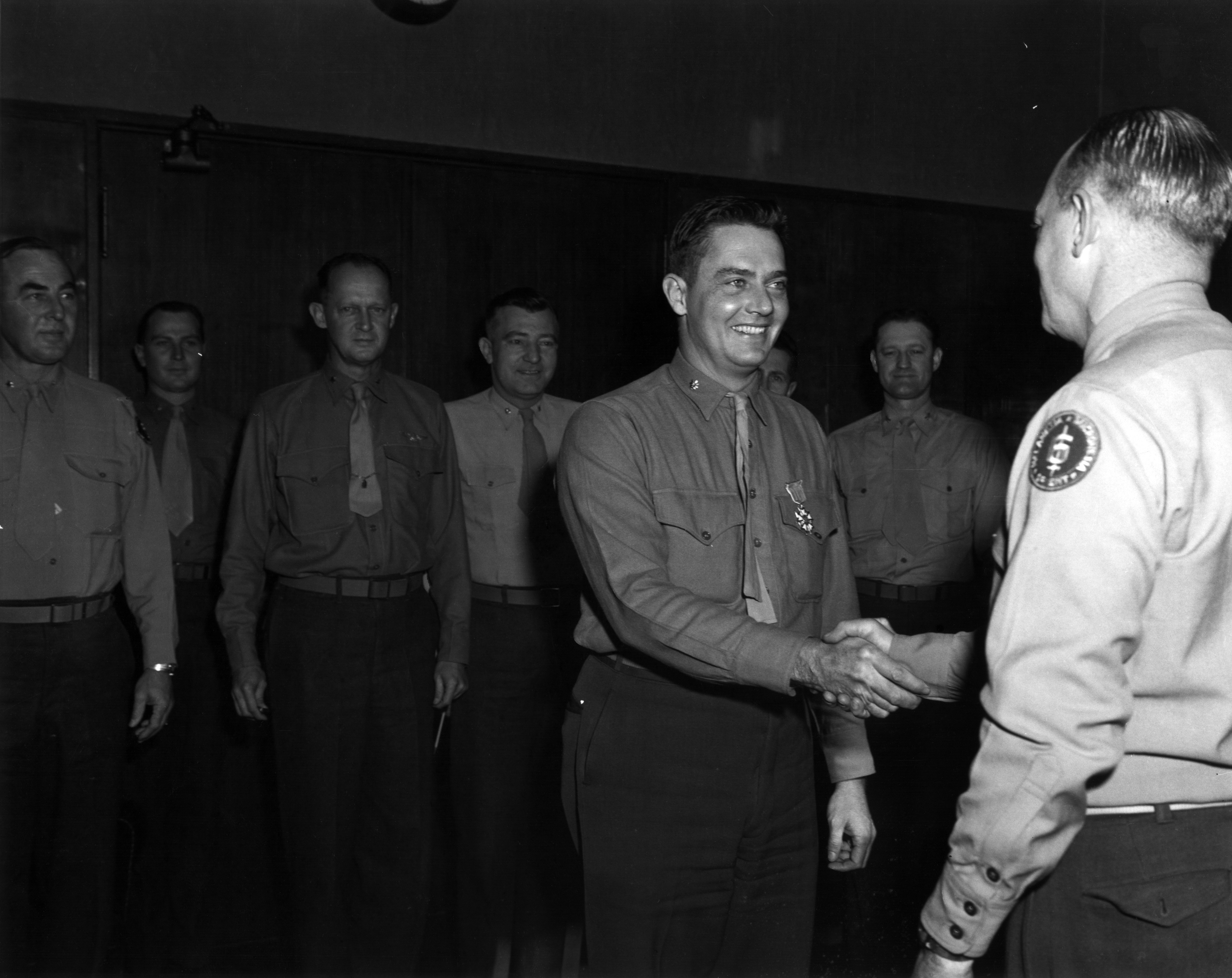 LtCol Samuel R. Shaw (Logistics officer, G-4; 6th Marine Division) receives Legion of Merit from General Lemuel C. Shepherd Jr. (Commanding general, 6th Marine Division) for his service as Commanding officer, 6th Pioneer Battalion during Okinawa Battle. Photo taken at 6th Marine Division headquarters in Tsingtao, China.